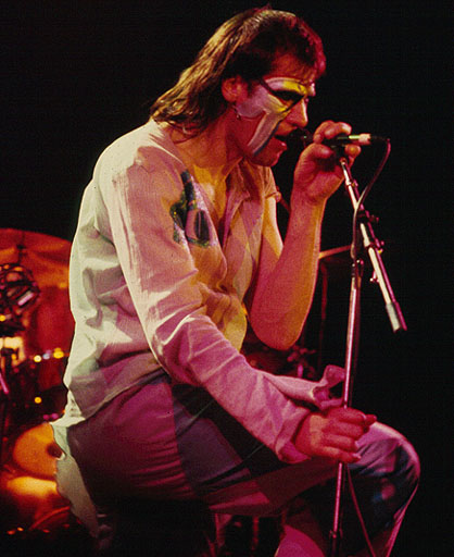 Marillion,St.Albans City Hall , 1981 ?